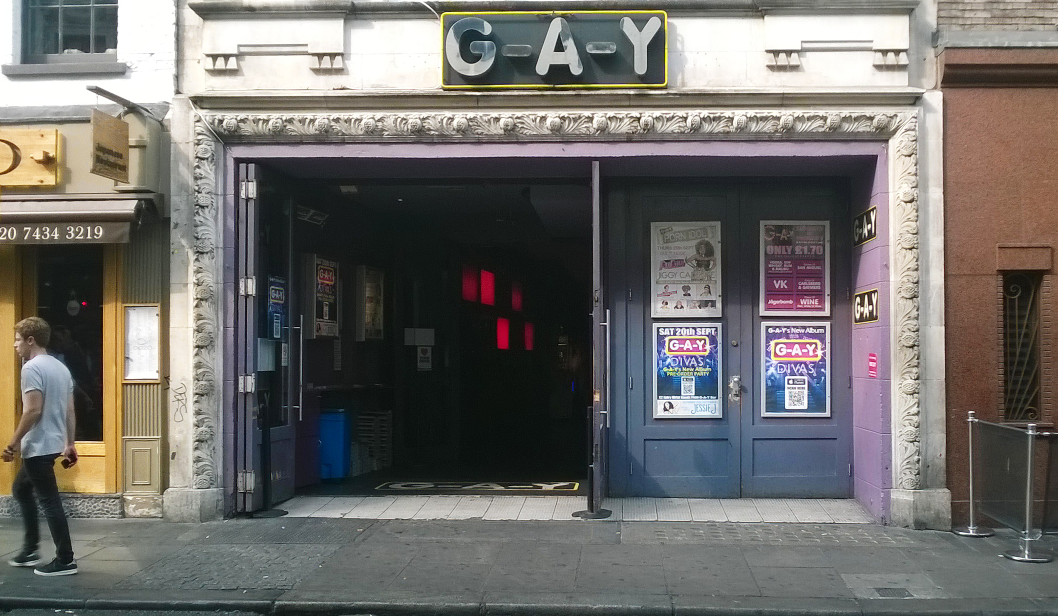 The G-A-Y Bar, a gay bar in Old Compton Street, Soho, central London.